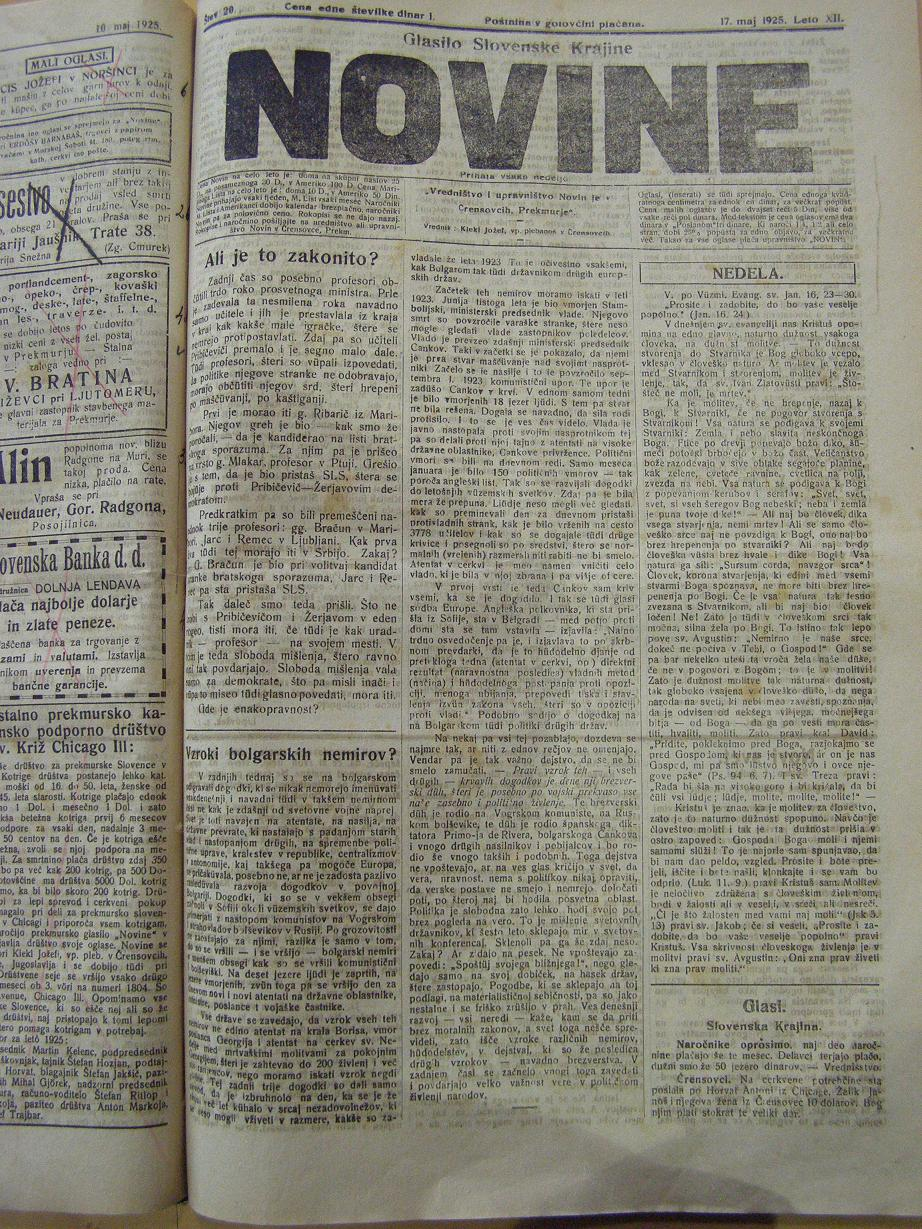 The Novine, May 17, 1925. In the front-page about the communistic movement in Bulgaria